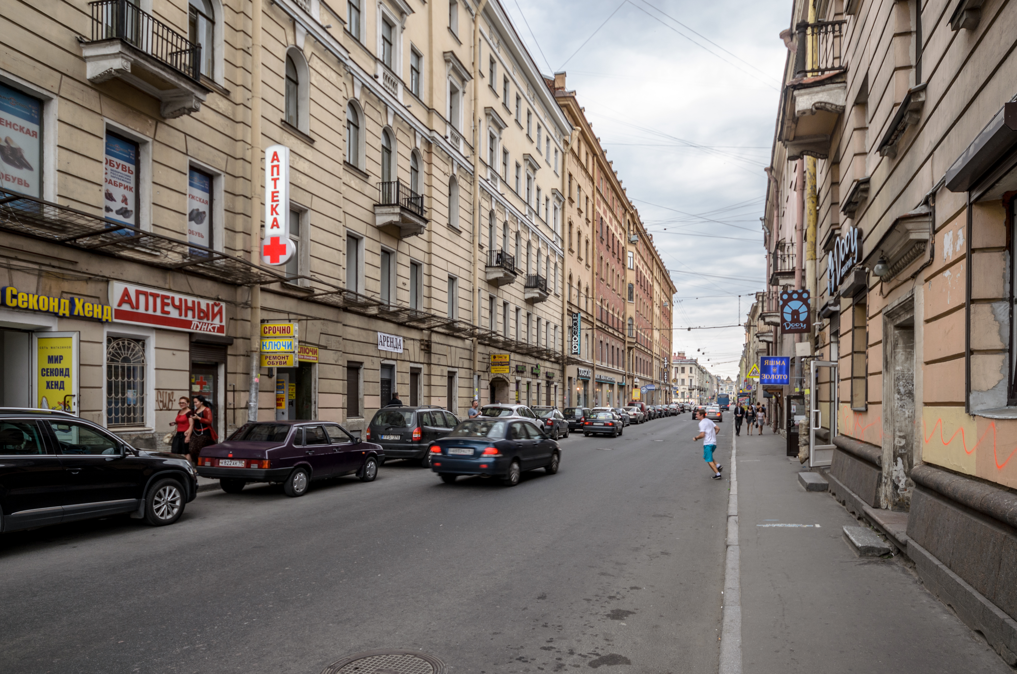 Grivtsova Lane in Saint Petersburg